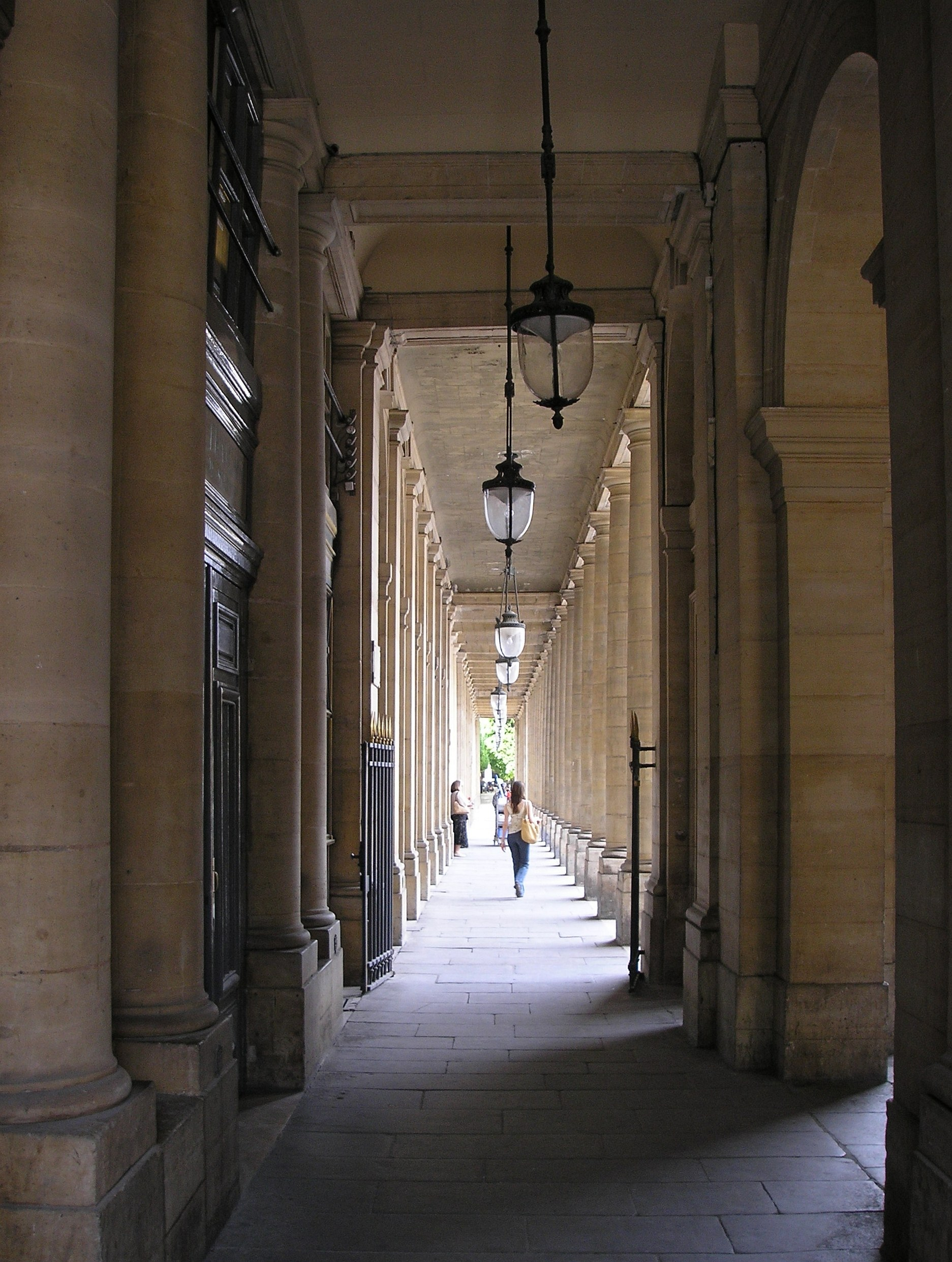 View of the arcades at the Palais-Royal in Paris.